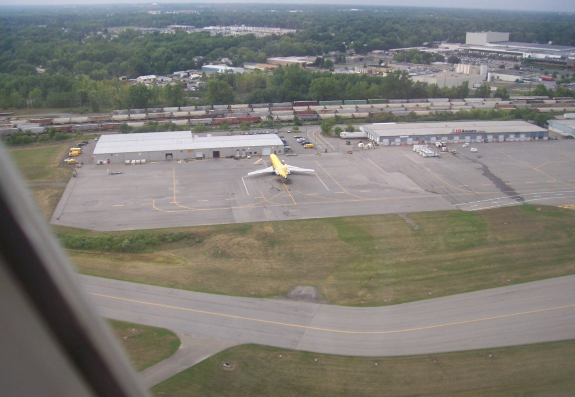 Greater Rochester, NY International Airport cargo terminal seen from a departing jet in August 2007.